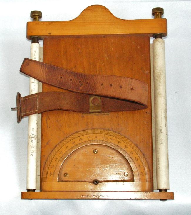 An Elliot Bros London First World War British Army military sketching board with arm buckle. The board normaly has an integrated inclinometer and compass. On the board is written "Major Verners Patent". The artistic sketching ability of the Military in the late Victorian and WWI period was a key to their effectiveness as cameras had not really come into play.” The board could be strapped on a forearm. It was used by the Cavalry and the RFC. It's 24 cm high and 17,5 cm wide. This one still holds the original notes. Note: The site where this comes from has just been stamped cc by sa n the bottom right at the request of the GibraltarpediA project